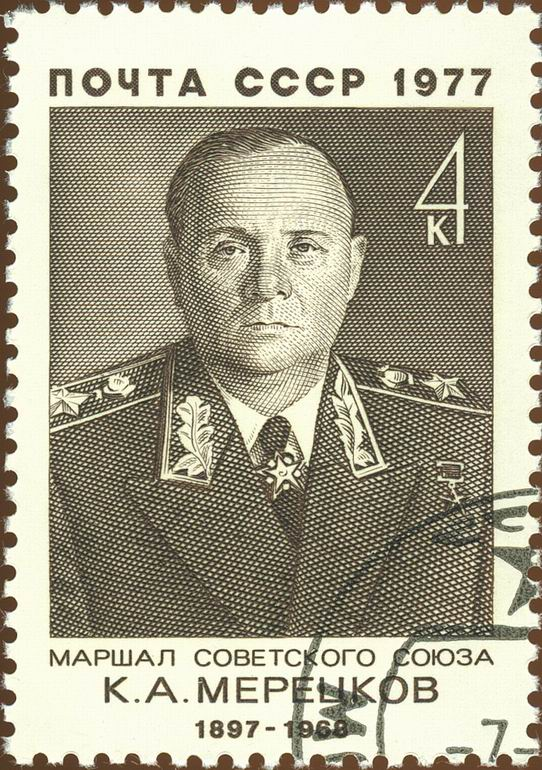 A USSR stamp, Military persons of the USSR. Kirill Meretskov.